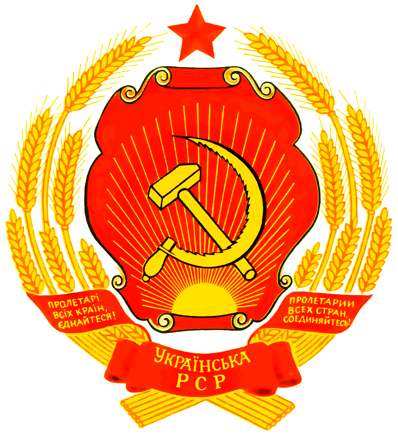 Coat of arms of Ukrainian SSR